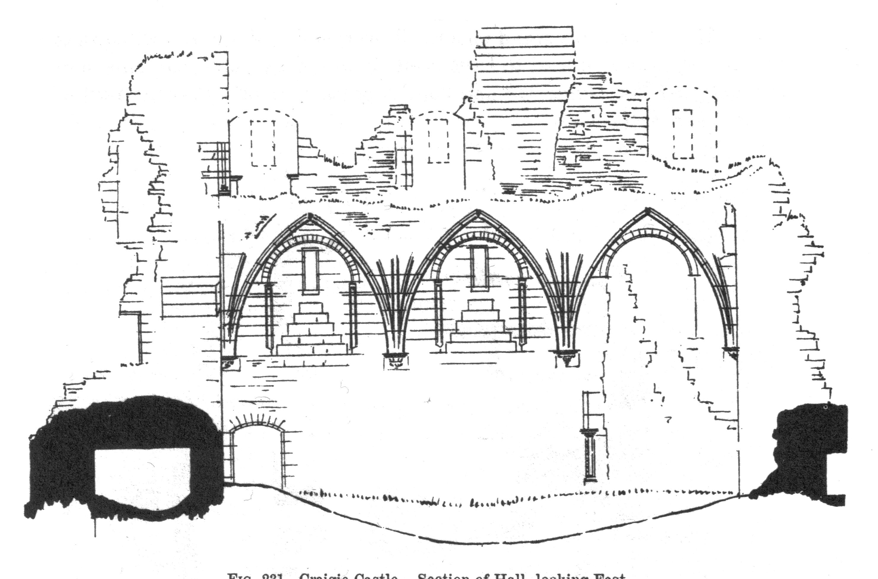 Craigie Castle, South Ayrshire, Scotland. East view of the Great hall.